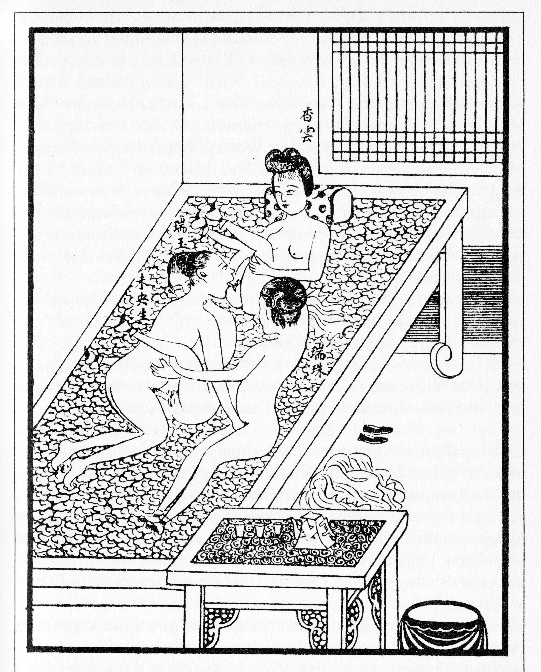 woocut to 1894 edition of Rouputuan